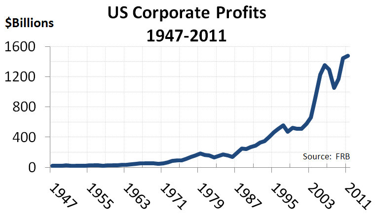 US corporate profits 1947-2011. Original source: Federal Reserve Board St. Louis. Weblink